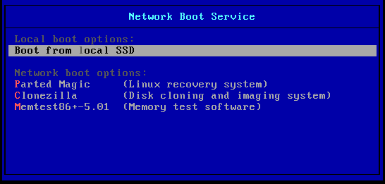 Simple text based PXE boot menu, created with PXELINUX and the following configuration in pxelinux.cfg/default: # # PXE Text Boot Menu # DEFAULT menu.c32 MENU TITLE Network Boot Service MENU CLEAR ALLOWOPTIONS 0 PROMPT 0 TIMEOUT 0 MENU COLOR hotkey 1;31;44 # # Menu # LABEL - MENU LABEL Local boot options: MENU DISABLE LABEL bootlocal MENU LABEL Boot from ^local SSD MENU DEFAULT LOCALBOOT 0 MENU SEPARATOR LABEL - MENU LABEL Network boot options: MENU DISABLE LABEL pmagic MENU LABEL ^Parted Magic (Linux recovery system) LINUX img/pmagic/bzImage64 INITRD img/pmagic/initrd.img,img/pmagic/fu.img,img/pmagic/m64.img,img/pmagic/files.cgz APPEND edd=on vga=normal LABEL clonezilla MENU LABEL ^Clonezilla (Disk cloning and imaging system) LINUX img/clonezilla/memdisk INITRD img/clonezilla/clonezilla.iso APPEND iso LABEL memtest MENU LABEL ^Memtest86+-5.01 (Memory test software) KERNEL img/memtest86/memtest86 # # EOF #